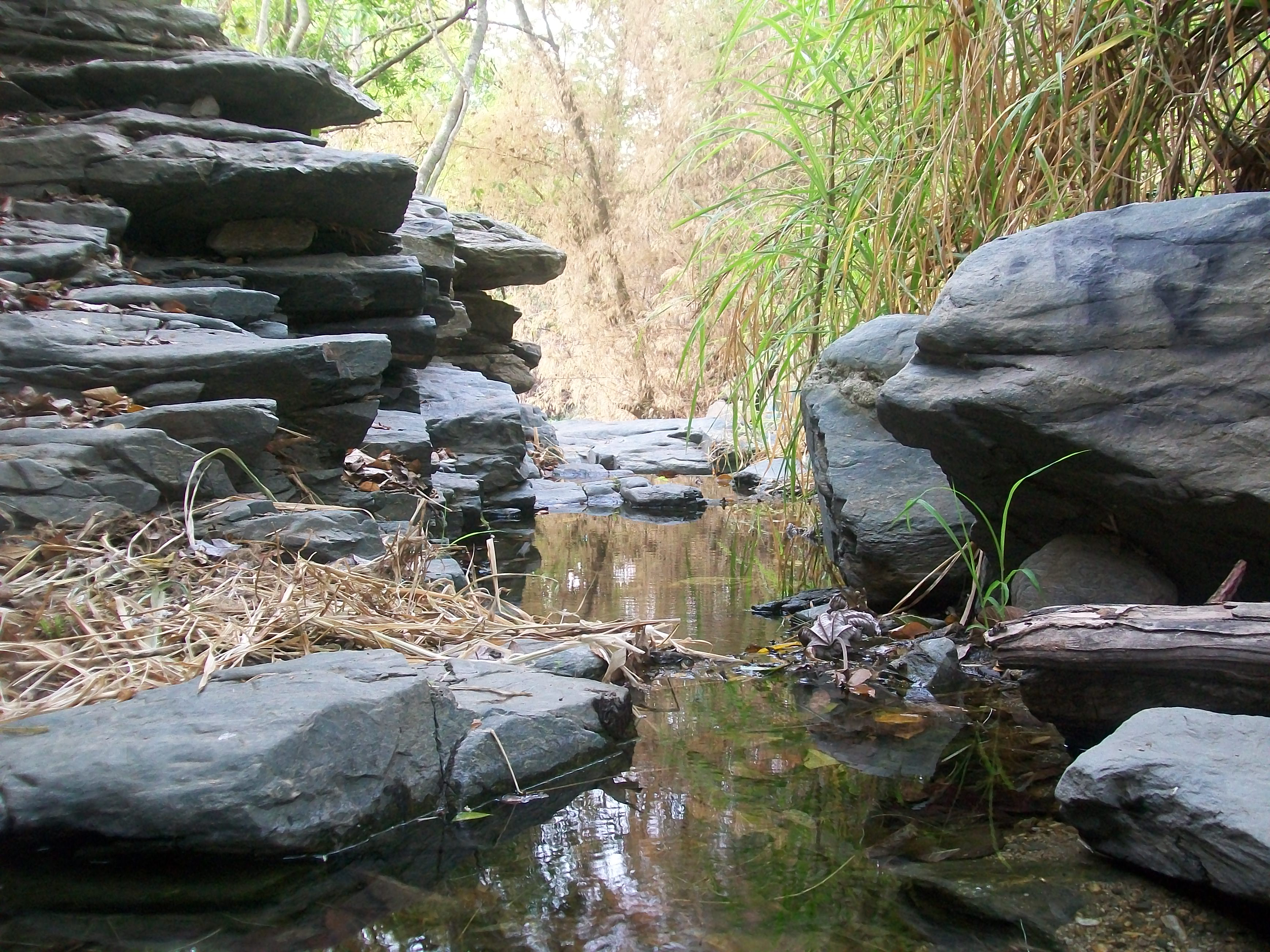 Small stream within the Henri Pittier National Park in Maracay, Venezuela